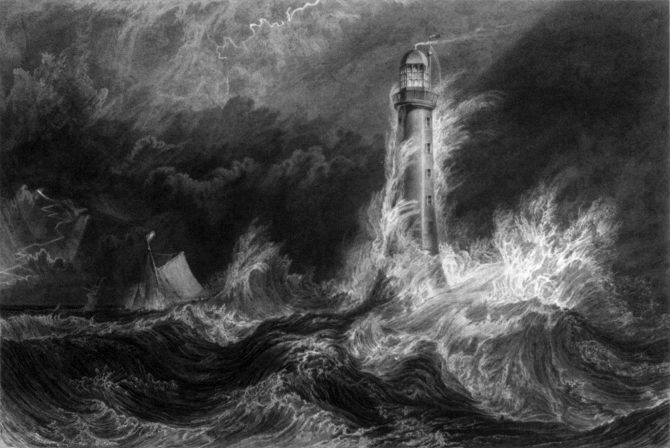 Illus. in: Robert Stevenson, An Account of the Bell Rock Lighthouse.